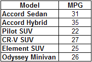 Part of a series of images to illustrate an article on the Analytic Hierarchy Process